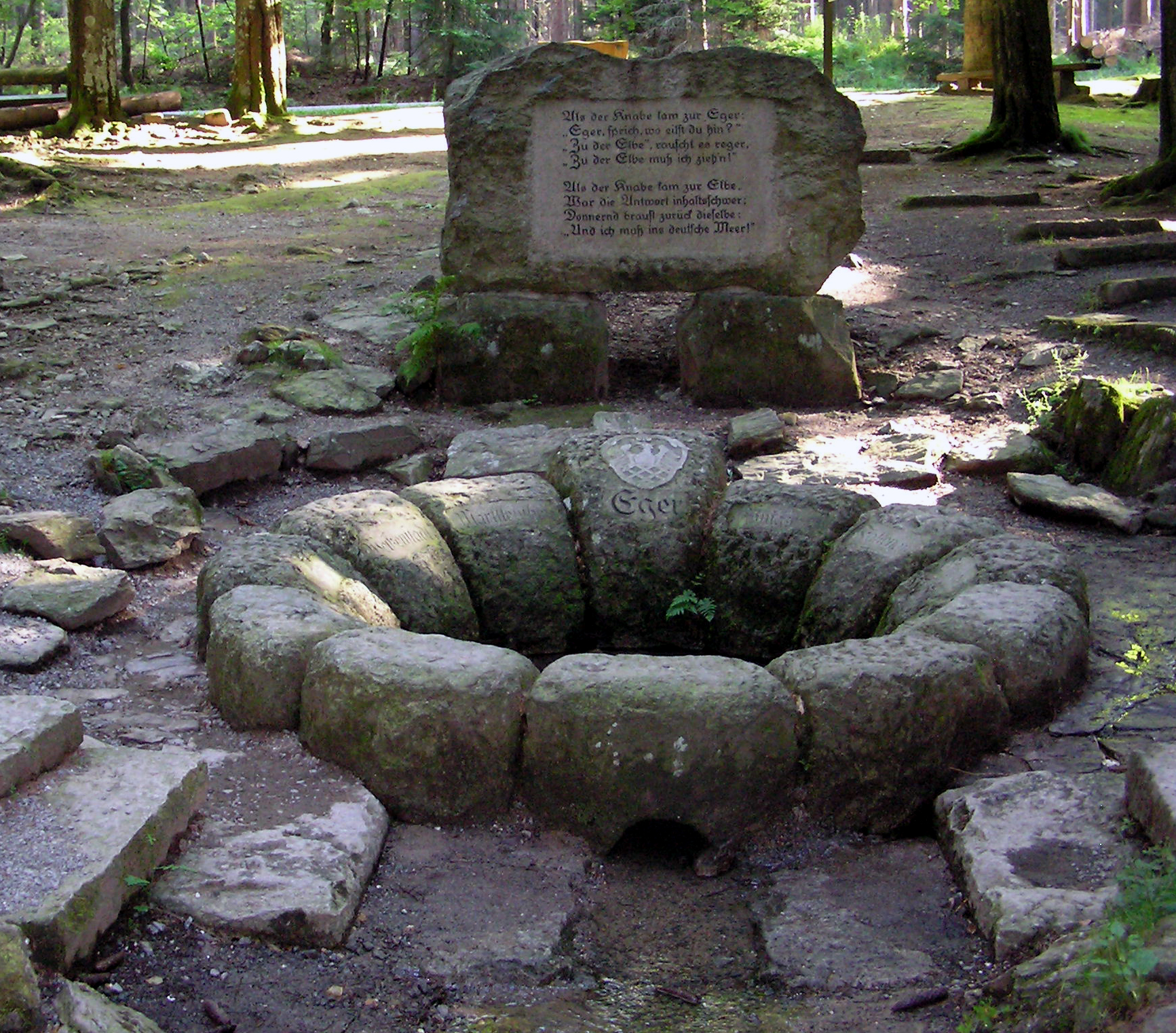 Description: Egerquelle Source: Selbst fotografiert Date: 19. August 2005 Author: Schubbay